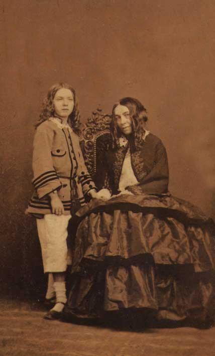 Photo of Elizabeth Barrett Browning with her son Pen (Robert Wiedemann Barrett Browning).